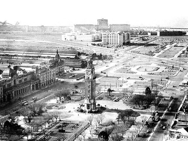 Retiro Railway Station and Torre Monumental (then named Torre de los Ingleses) at Plaza Fuerza Aérea Argentina (then named Plaza Británica), Buenos Aires (c. 1945).